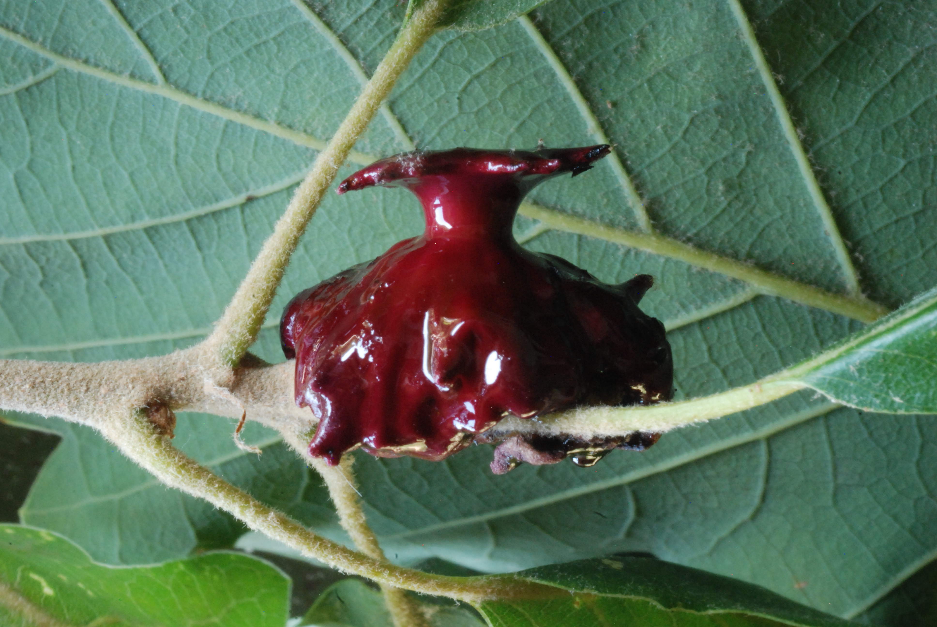 A gall made by Andricus dentimitratus covered in red sticky resin. Showing attachment to stem. Growing on Quercus pyrenaica